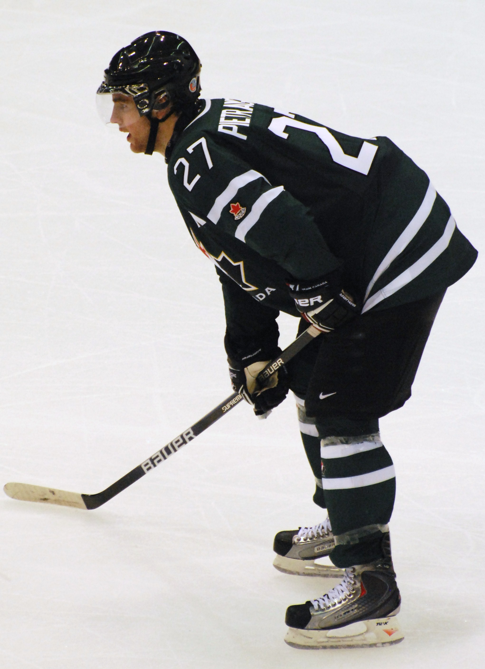 Alex Pietrangelo during an exhibition game prior to the 2010 World Junior Championships.